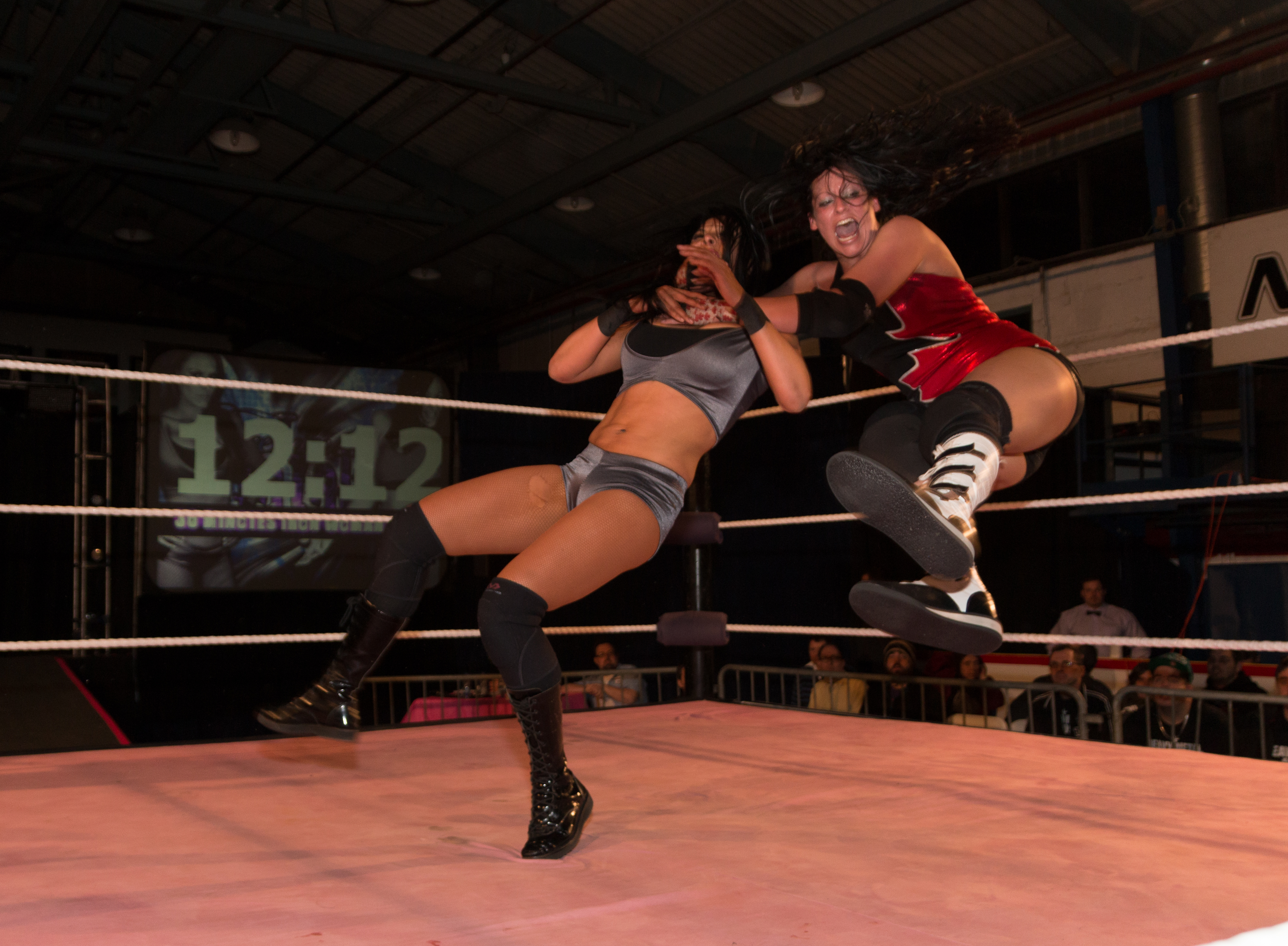 Courtney Rush (right) clotheslining Cheerleader Melissa at nCw Femmes Fatales XIV